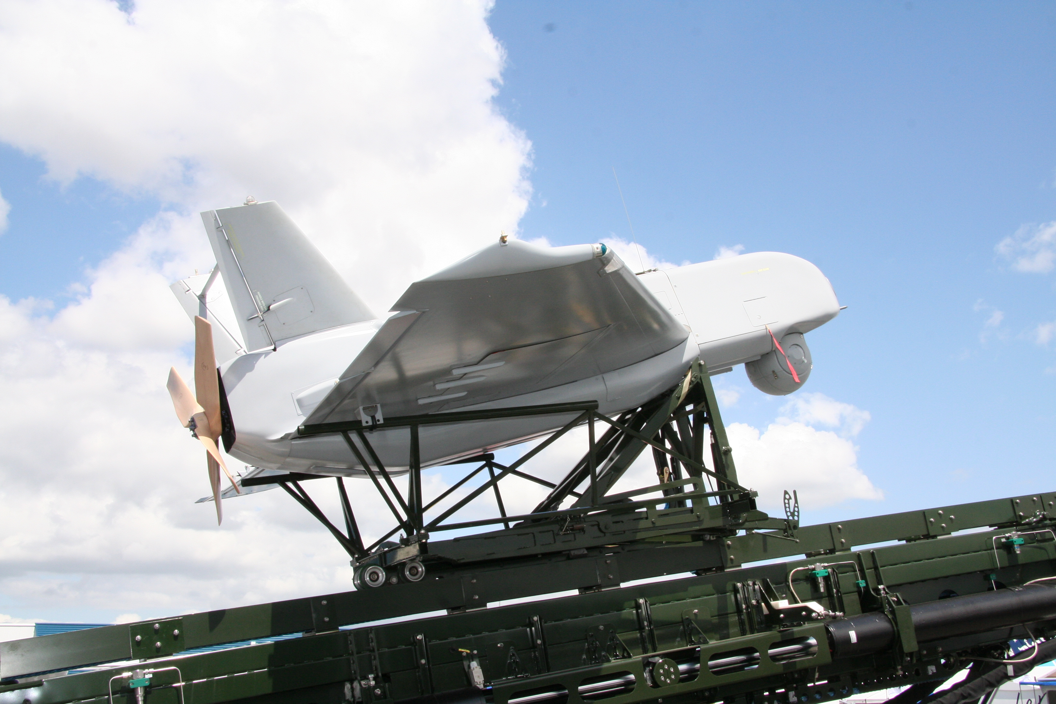 SDTI UAV - Paris Air Show 2009